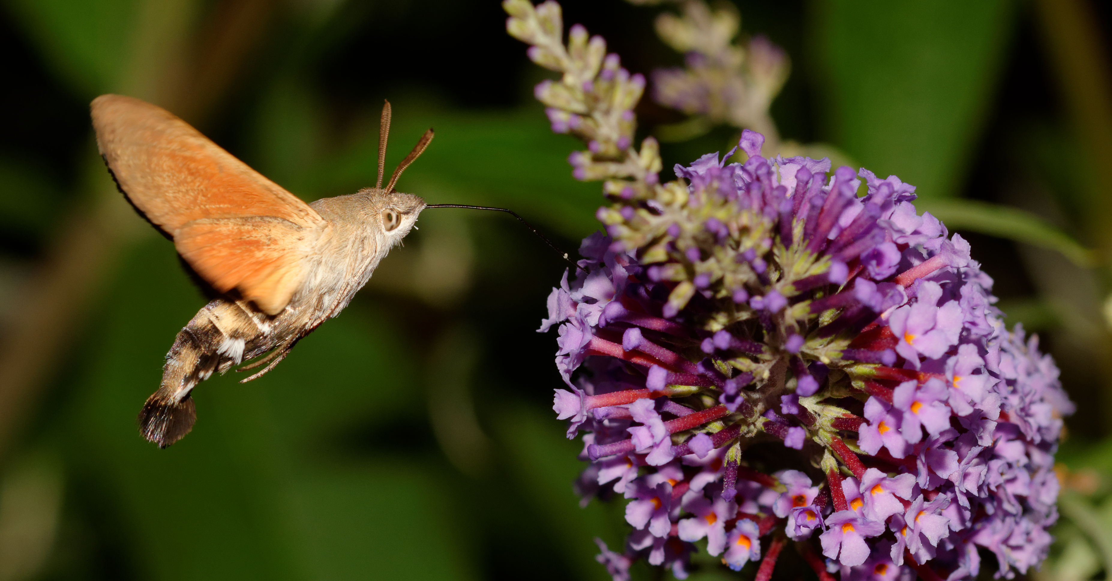 This image was uploaded as part of Wiki Science Competition 2019.